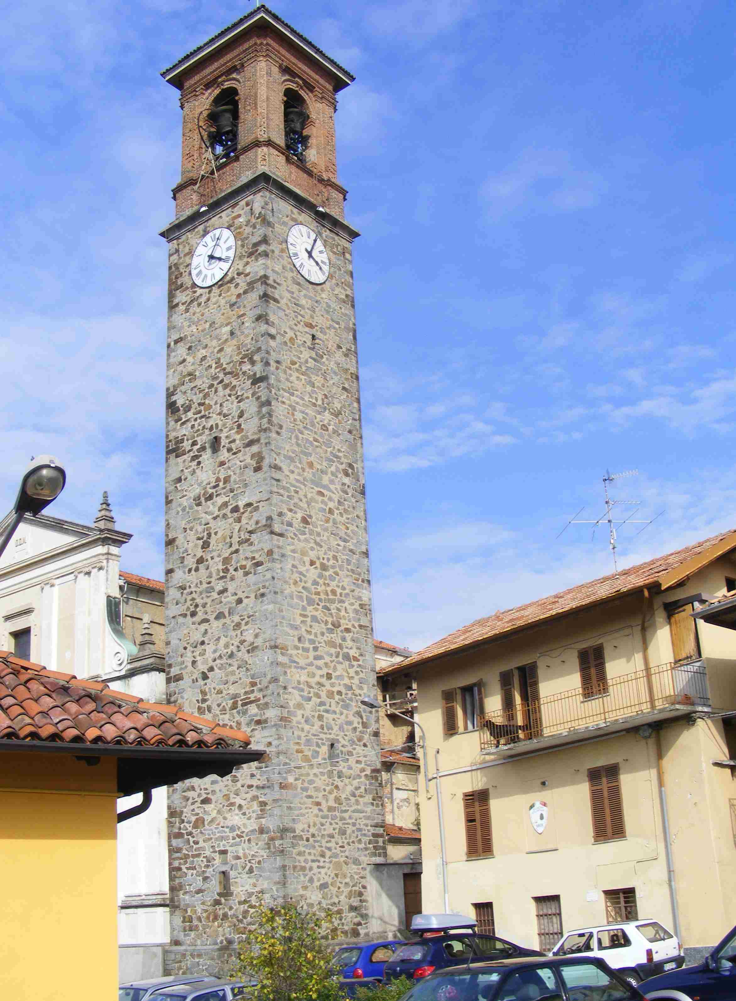 Zumaglia: bell tower (BI, Italy)